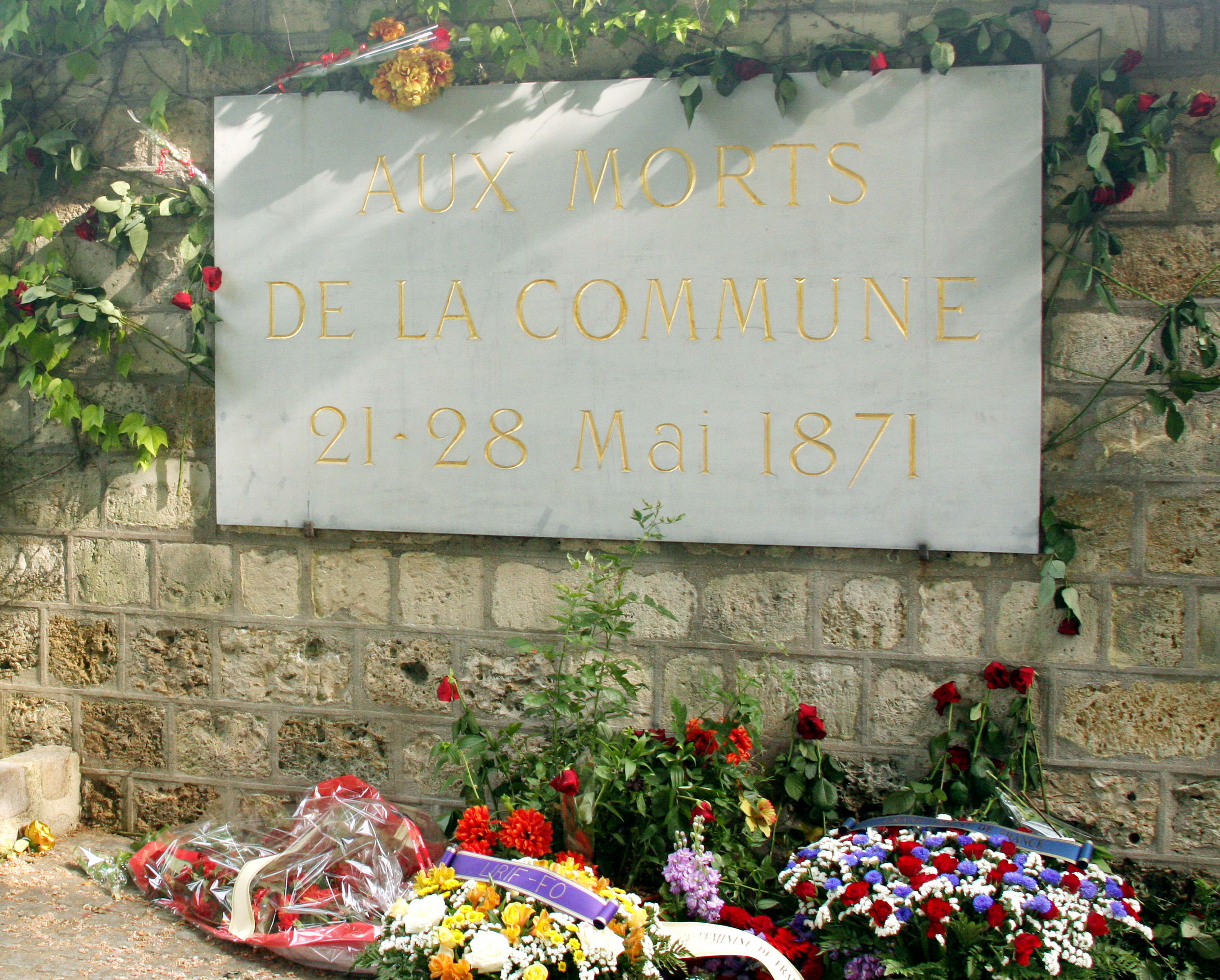 The Paris Commune Memorial in Paris, France in Père Lachaise Cemetery.